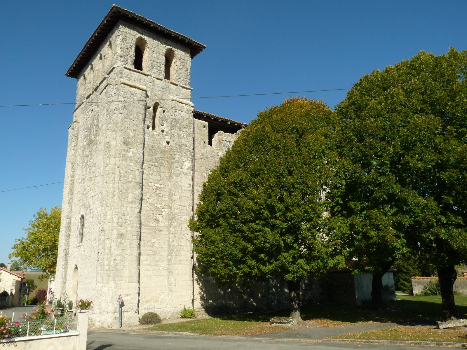 church of St-Martial-Viveyrol, Dordogne, France